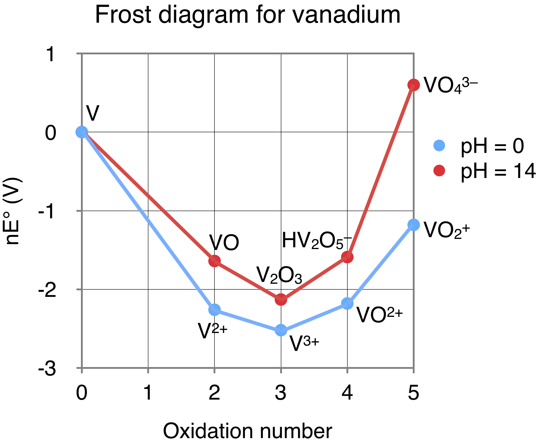 Frost diagram for vanadium. Data from Shriver & Atkins' Inorganic Chemistry, 5th Edition, 2010